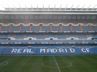 Santiago Bernabéu Stadium